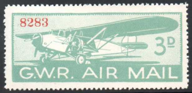 1933 3 pence Great Western Railway Airmail stamp No. 8283.